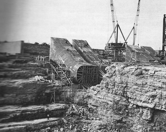 Construction changing the flow of the Beauharnois canal in Quebec.